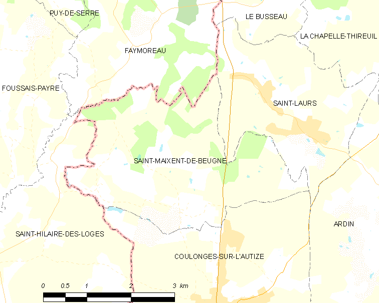 Map of French municipality Saint-Maixent-de-Beugné